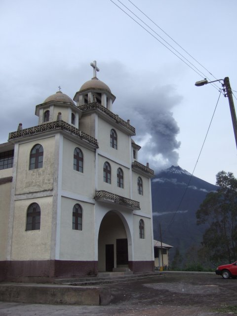 Another picture of Tungurahua from Cotaló by Gabriel Many.